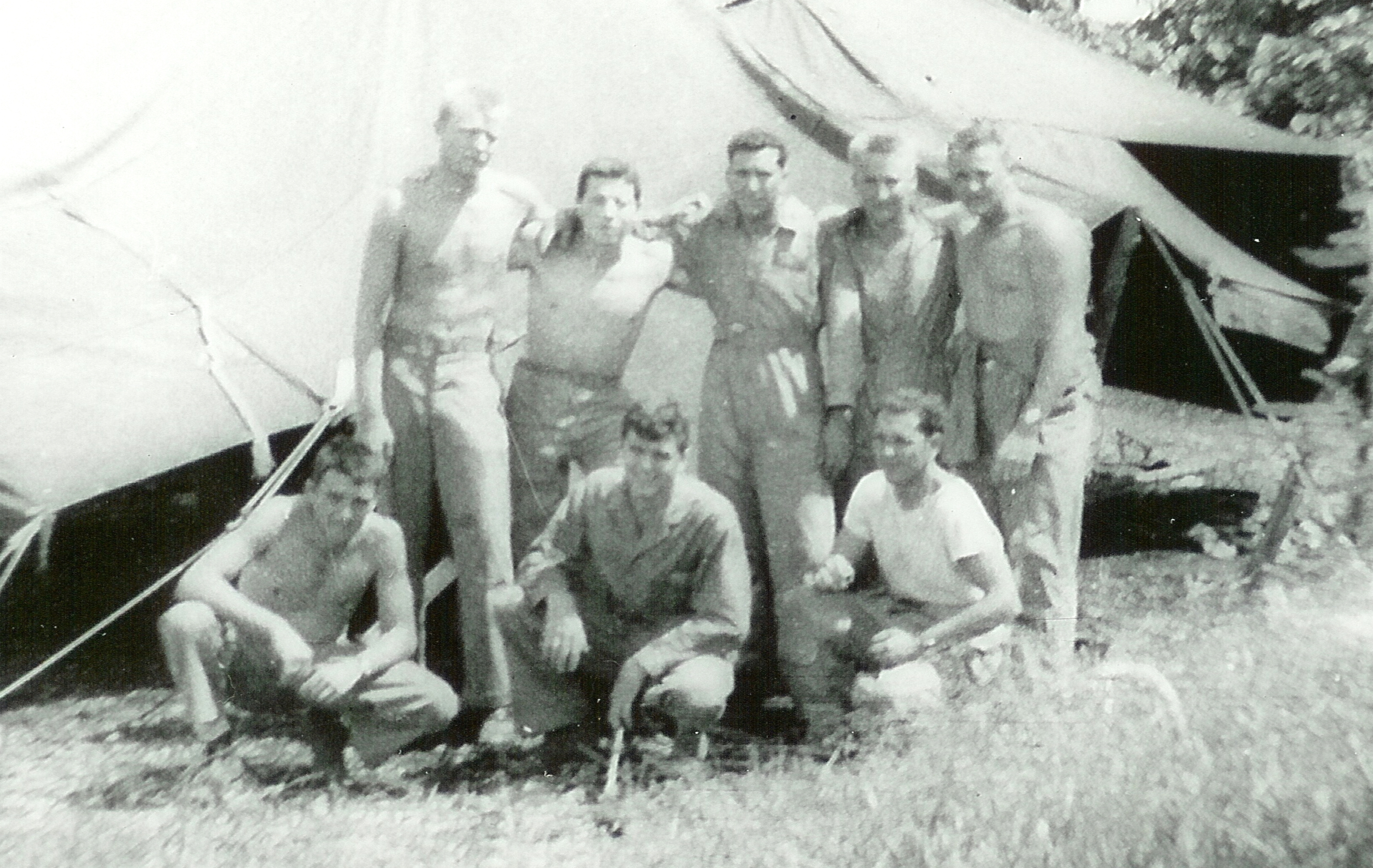 Hellion's as photographed by Capt Frank Harriman